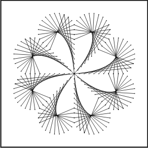 Stringart: Flower patten half-loop sewingRomână: Grafică brodată: Model de floare cu cusăutură semi-buclă